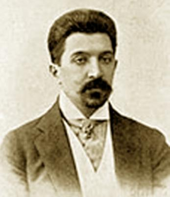 Stepan Lianosov